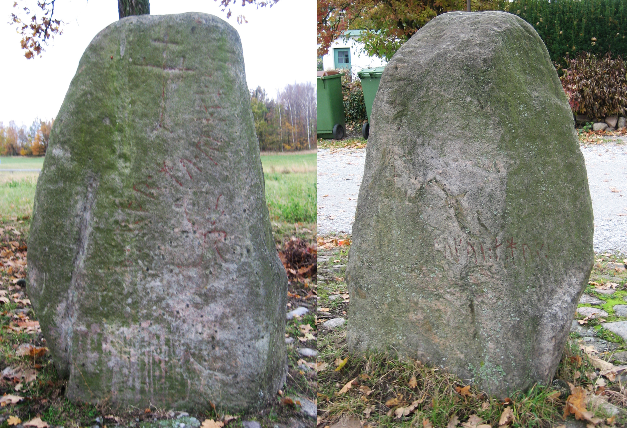 DR 264, Hybystenen 1 in Vissmarlöv/Vismarlöv in Skåne, Sweden. Photo by the uploader.